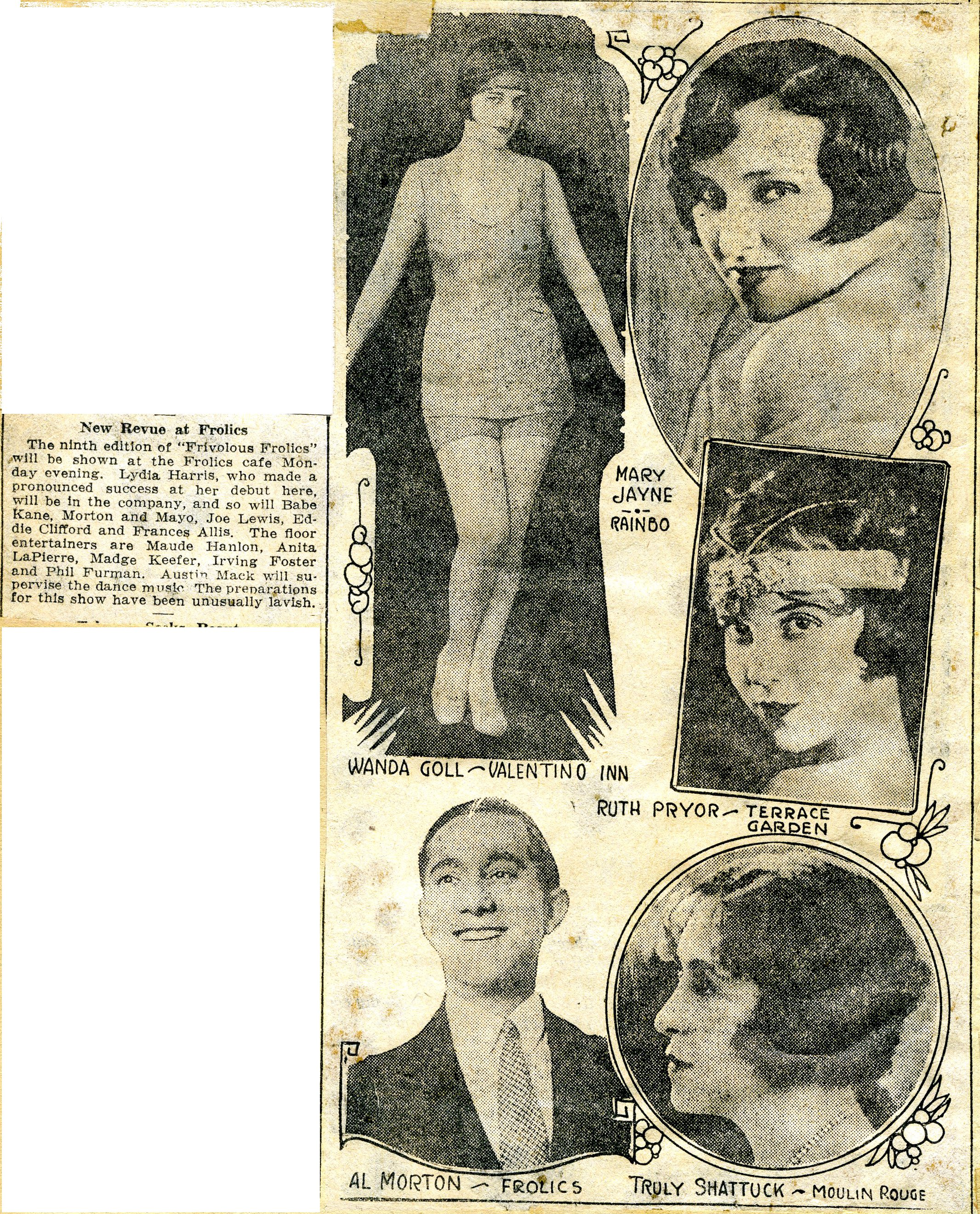 News Clipping for Morton and Mayo 1925 - unknown source